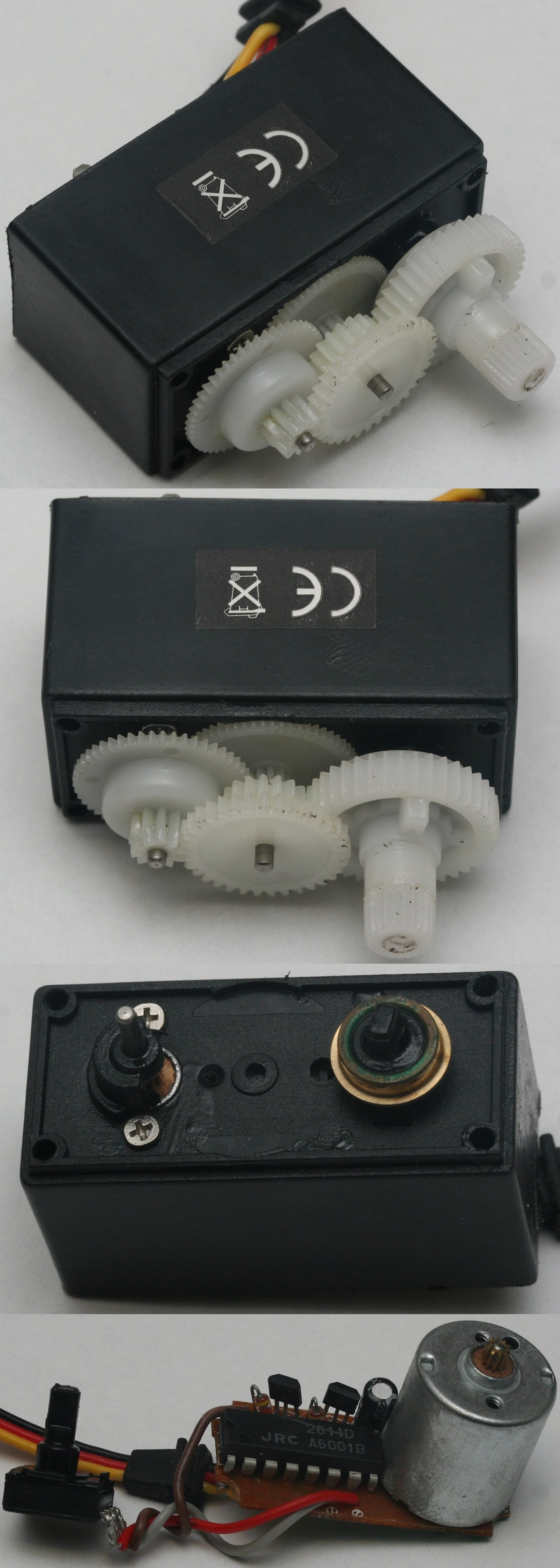 Disassembled RC servomechanism